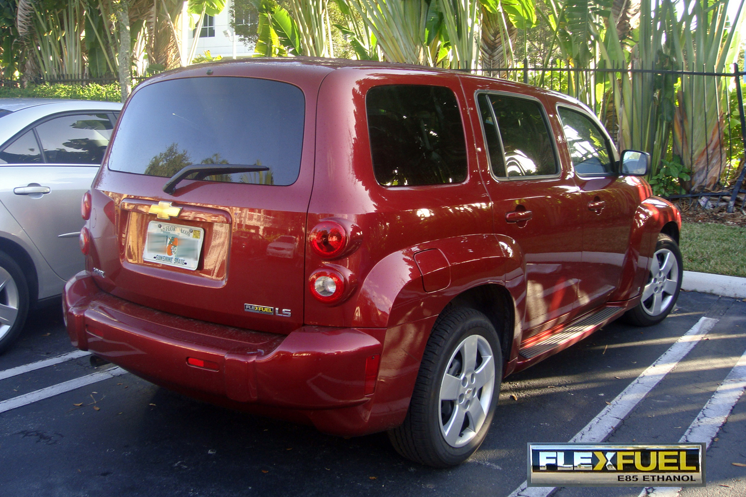 GM's Chevrolet HHR FlexFuel version, Miami, Florida